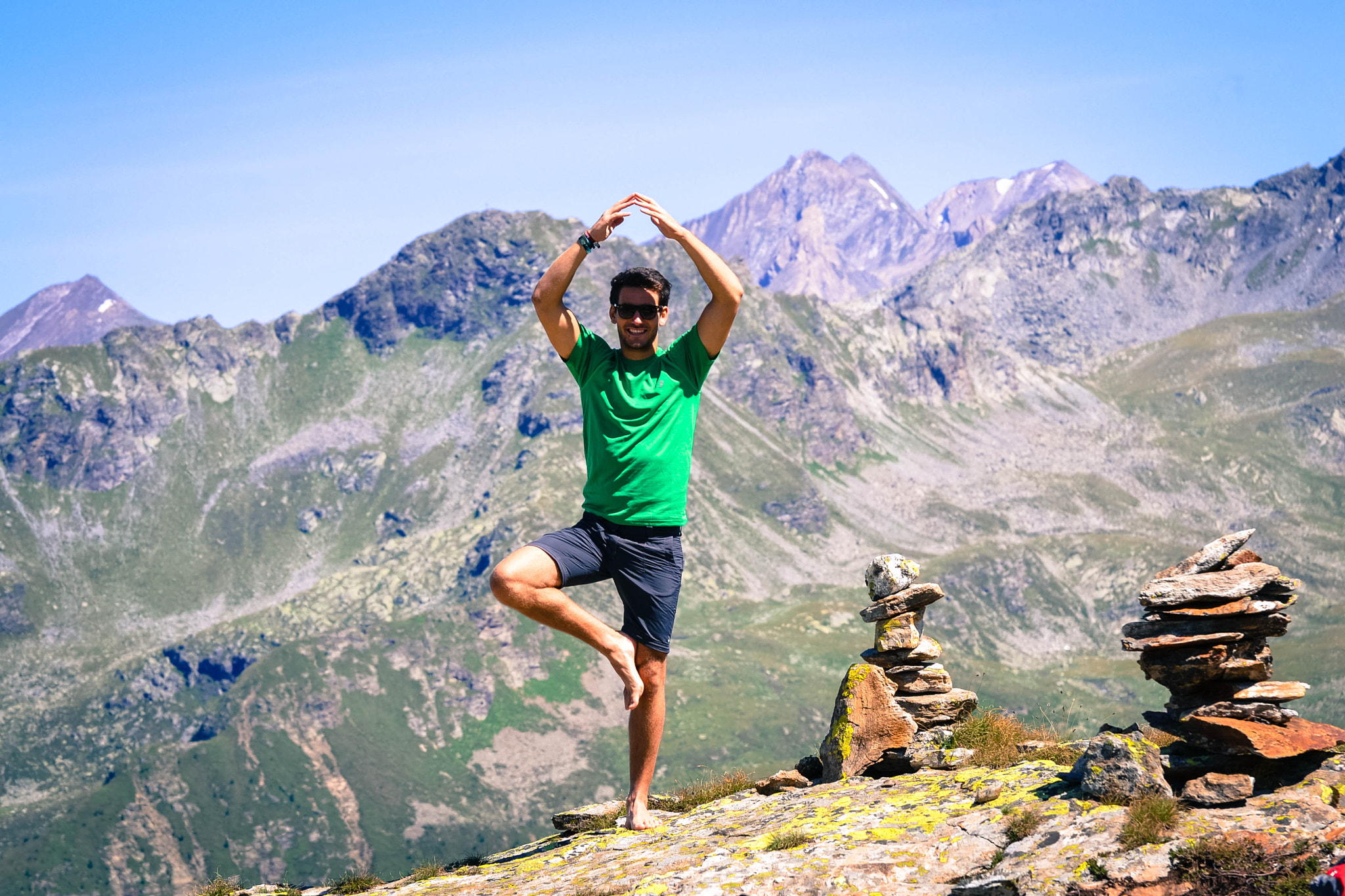 500px provided description: Mountain Yoga [#stones ,#sport ,#stone ,#mountain ,#yoga ,#balance]